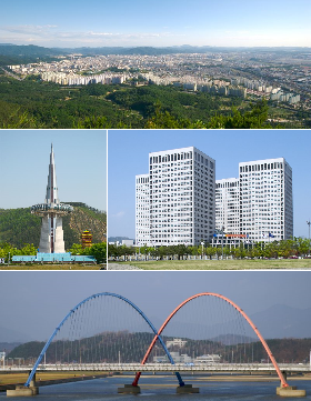 Montage of various Daejeon images